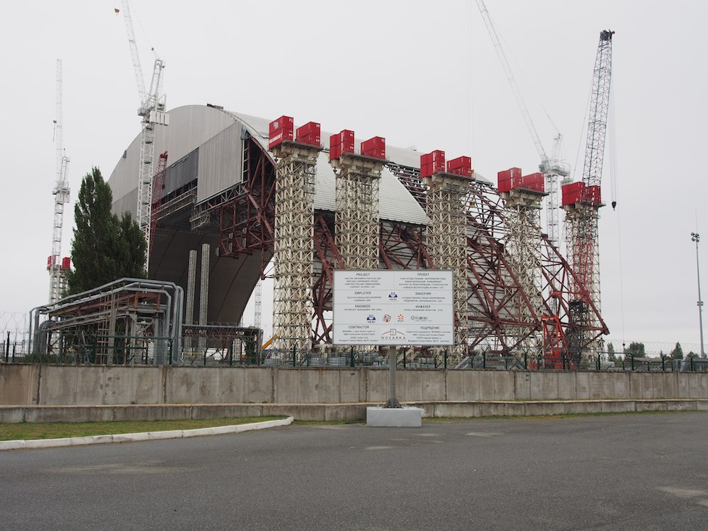 Reactor 4 and the new confinement structure